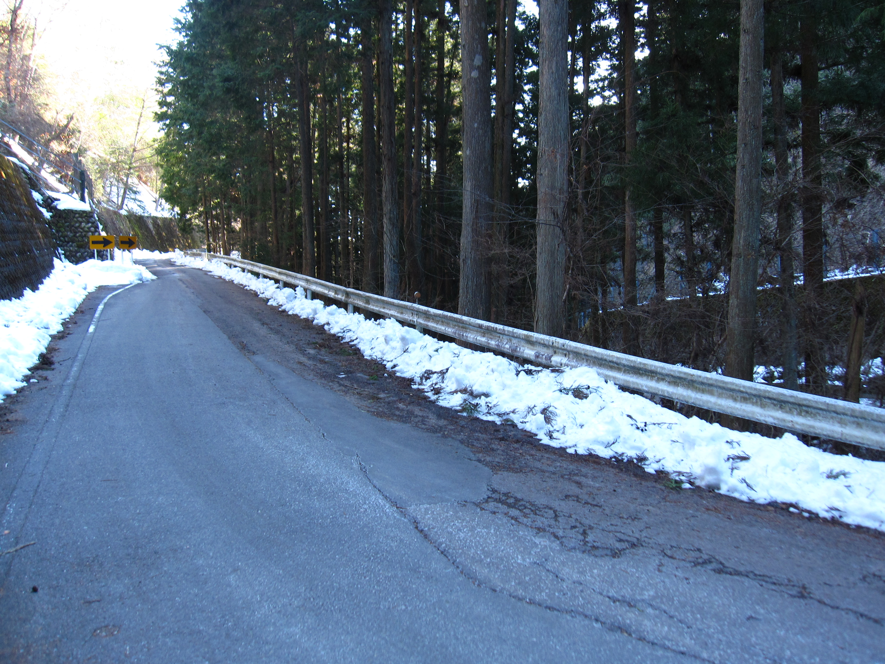 The Gifu Prefectural Road Route 85 near Hosei Pass